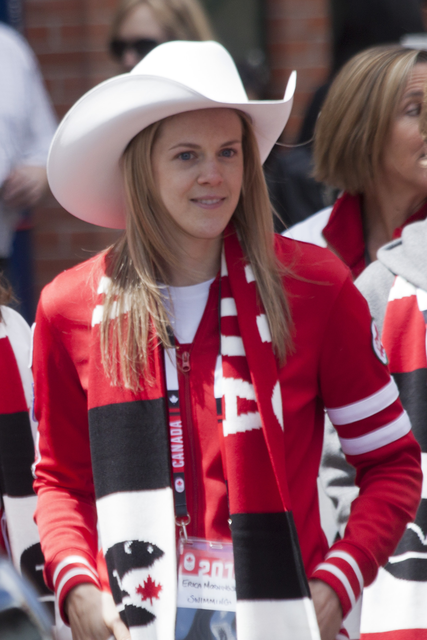 Erica Morningstarn at the Parade of Champions in downtown Calgary on June 6, 2014. Image has been cropped.